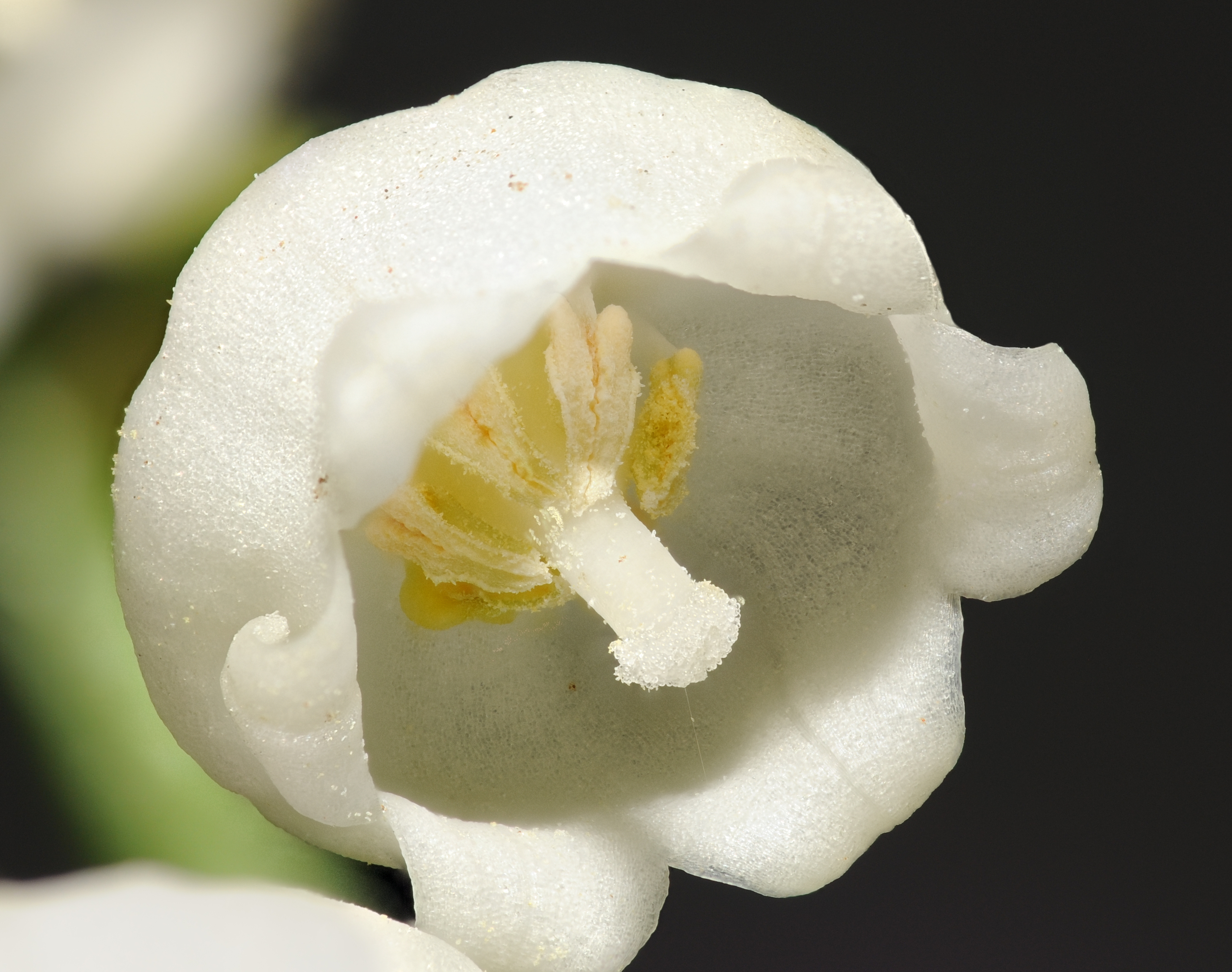 This photograph was taken with a Nikon D300 Focus stacking of 122 pictures (using Zerene Stacker).Fleur de muguet de mai (Convallaria majalis) (focus stacking). Image composée de 122 photos prises avec la bonnette Raynox DCR-250 et assemblées avec Zerene Stacker.